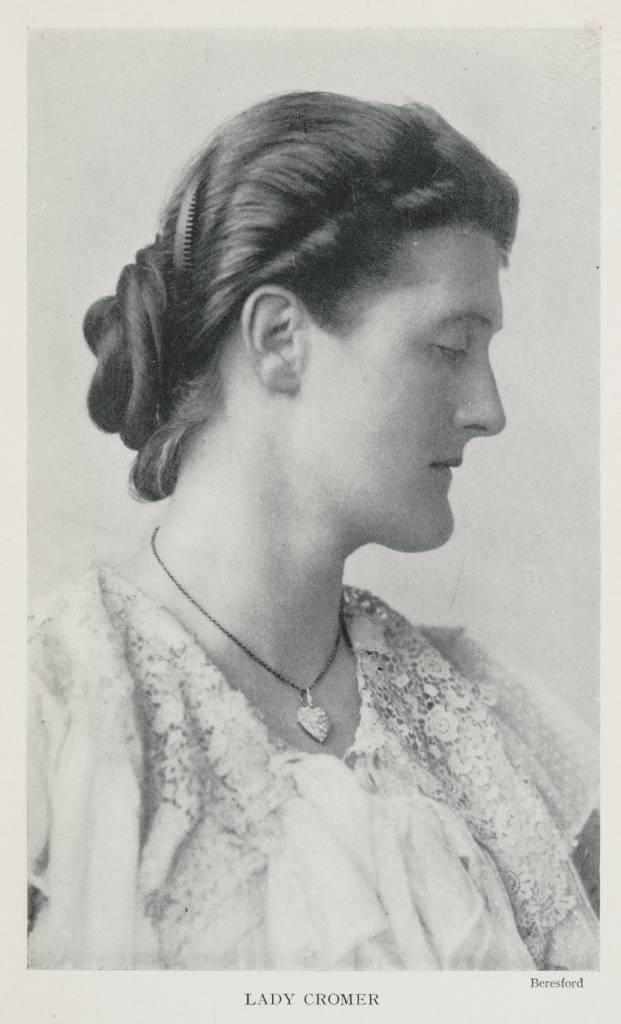 A profile shot of Lady Cromer.